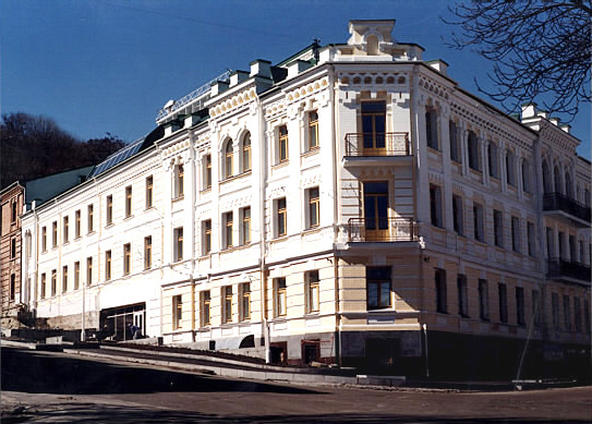 A historical building in Kyiv